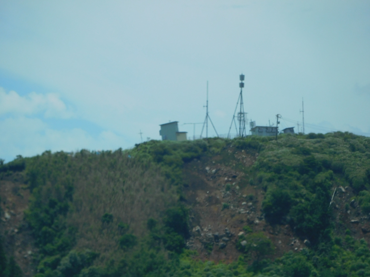 Formerly (1964-2016) Minamiaso Digital TV/FM Radio Relay Station in 2018 (Minamiaso Village, Kumamoto, Japan).